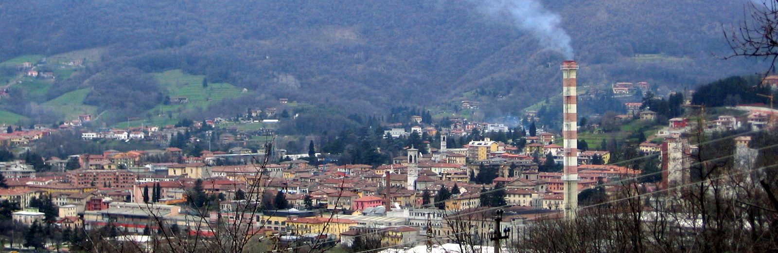 View of Alzano Lombardo, Bergamo, Lombardy, Italy